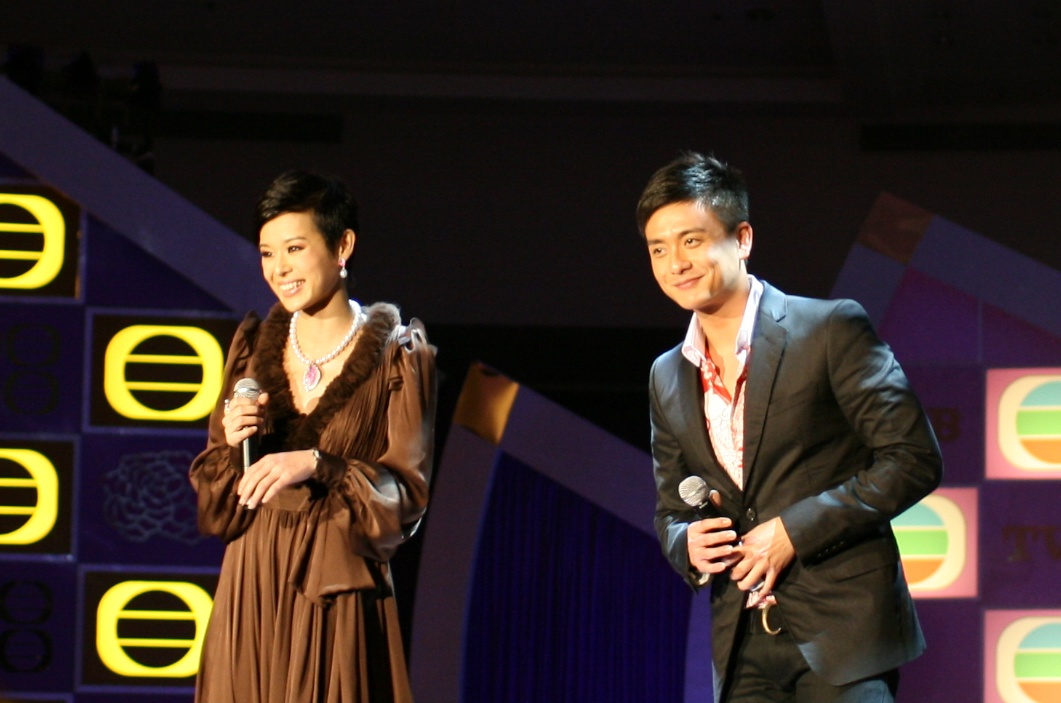 Myolie Wu (胡杏兒) and Bosco Wong (黃宗澤)胡杏兒呢刻身上值200萬架喎！